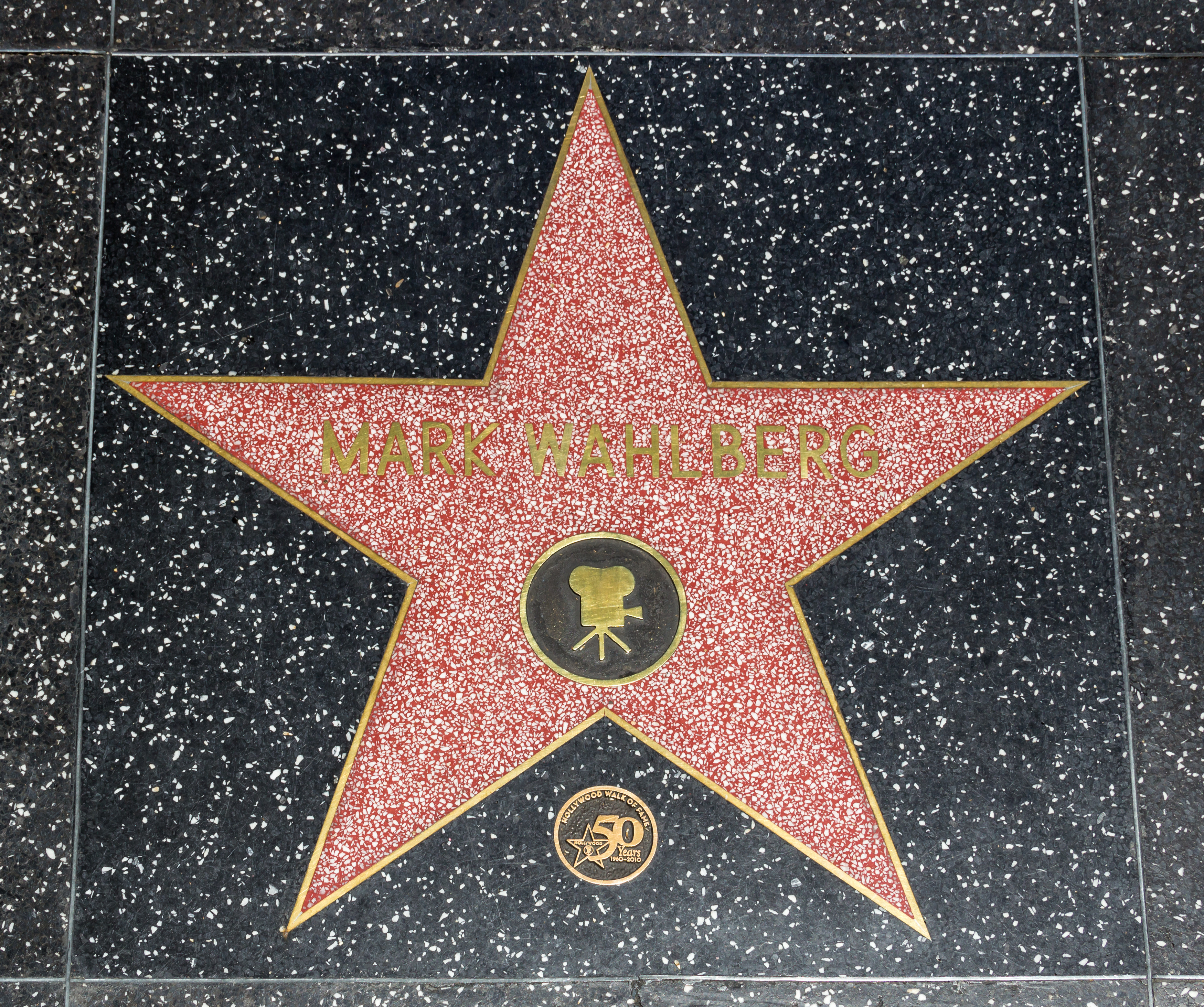 Star “Mark Wahlberg” at the Hollywood Boulevard in Los Angeles, California, USA